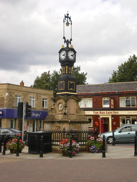 Clock, Market Street